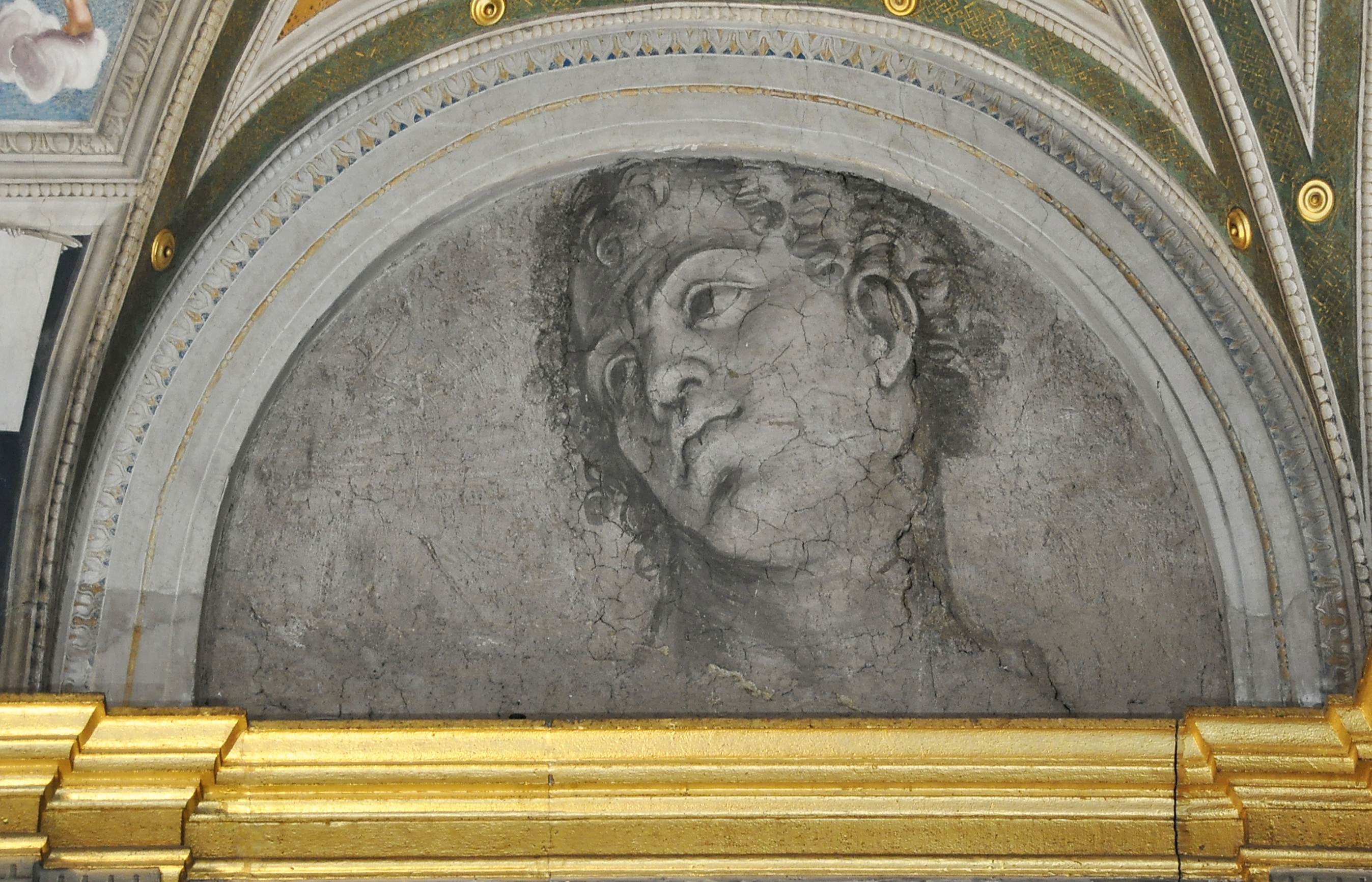 Monochrome portrait of a young man